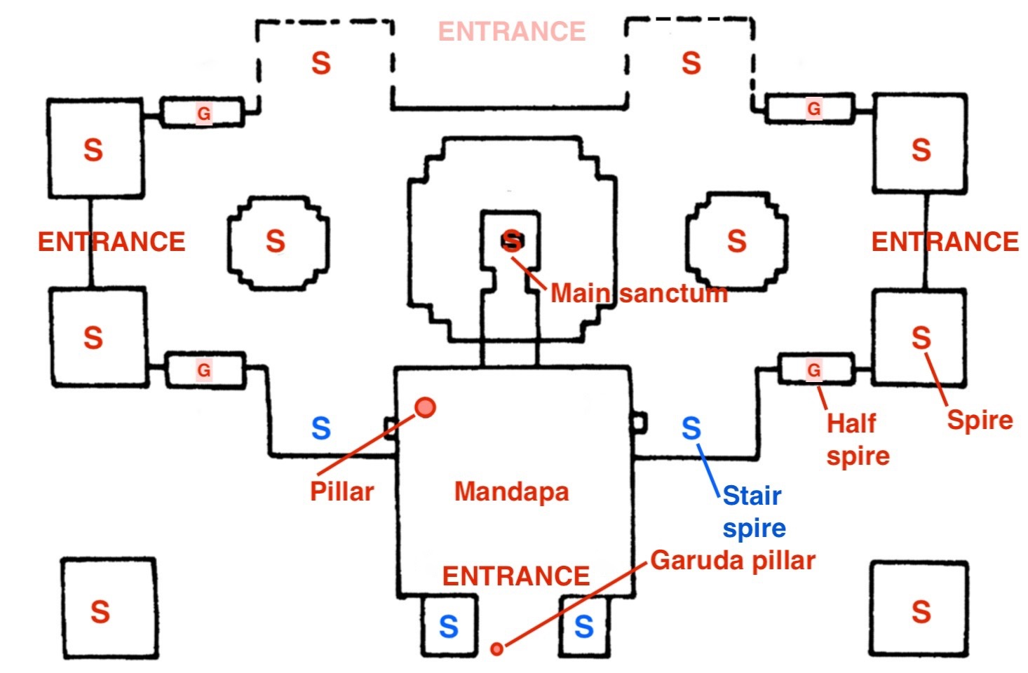 The sketch and labels are based on Henry Shuttleworth publication in January 1915 (created in 1913) in The Indian Antiquary. The tank is not shown above, it is shown by Shuttleworth as facing the Garuda pillar entrance. For a 2006 analysis, see Michael W. Meister (2006), Mountain Temples and Temple-Mountains: Masrur, Journal of the Society of Architectural Historians, Vol. 65, No. 1 (Mar., 2006), University of California Press.